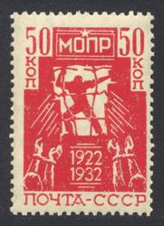 Stamp of USSR